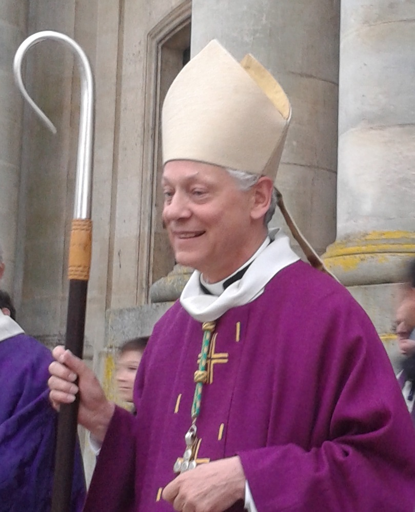 Mgr Aumonier bishop of Versailles →This file has been extracted from another file: Mgr Aumonier et Mgr Leborgne.jpg